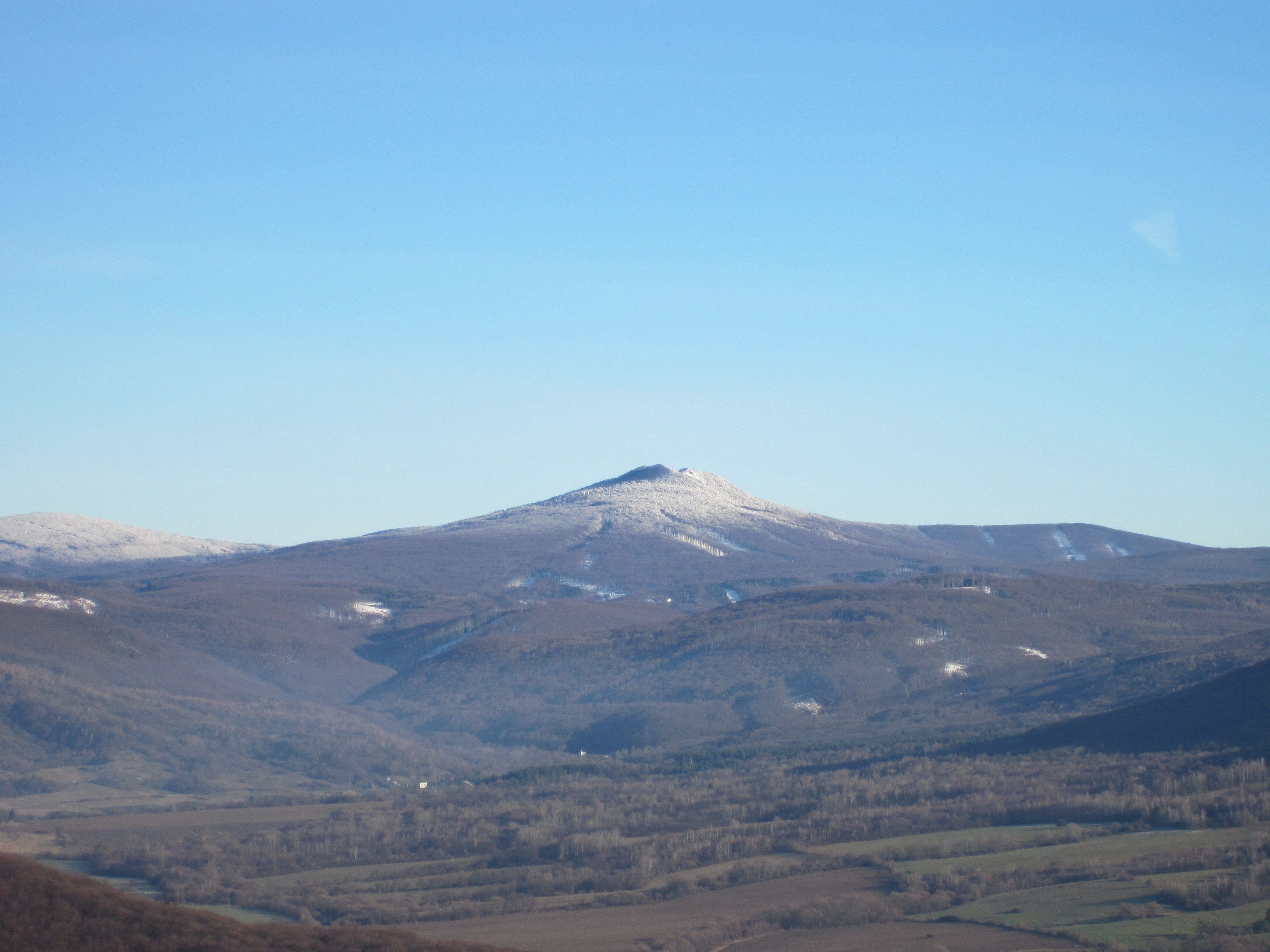 View of the snowy Vihorlat from the peak Červená skala This is a photography of Natura 2000 protected area with ID SKUEV0025